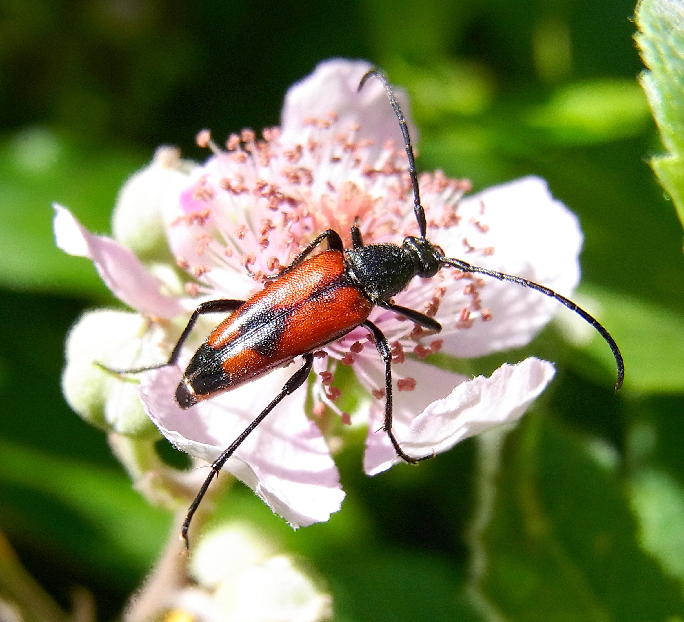 Stenurella bifasciata from France, north of Carcassonne, at 2011-06-09